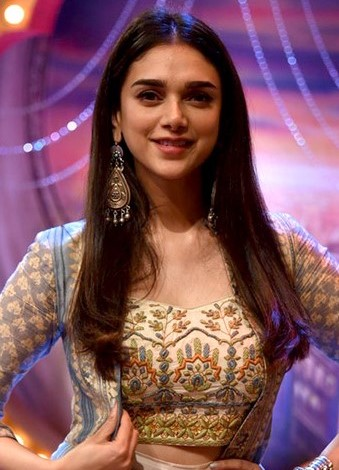 Aditi Rao Hydari on sets of The Drama Company.